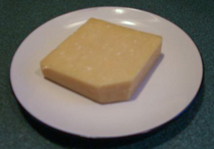 Dubliner cheese on a plate